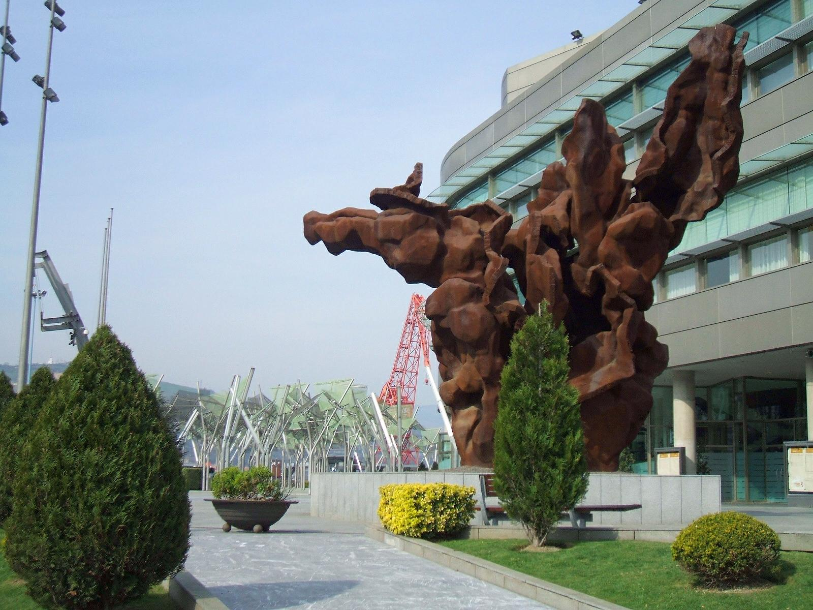 Palacio Euskalduna, Bilbao (País Vasco, España)